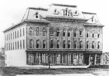 The Old Coates Opera House, famous in early-day Kansas City, Missouri history, built by Kersey Coates. From: Kansas City Chamber of Commerce.